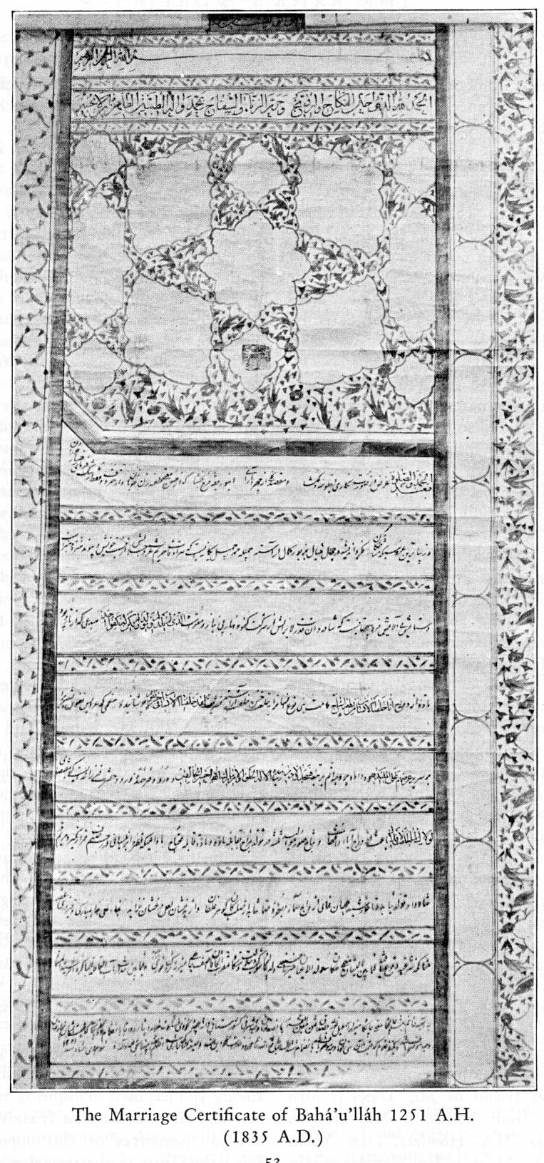 Wedding certificate of Bahá'u'lláh and Ásíyih Khánum from 1835